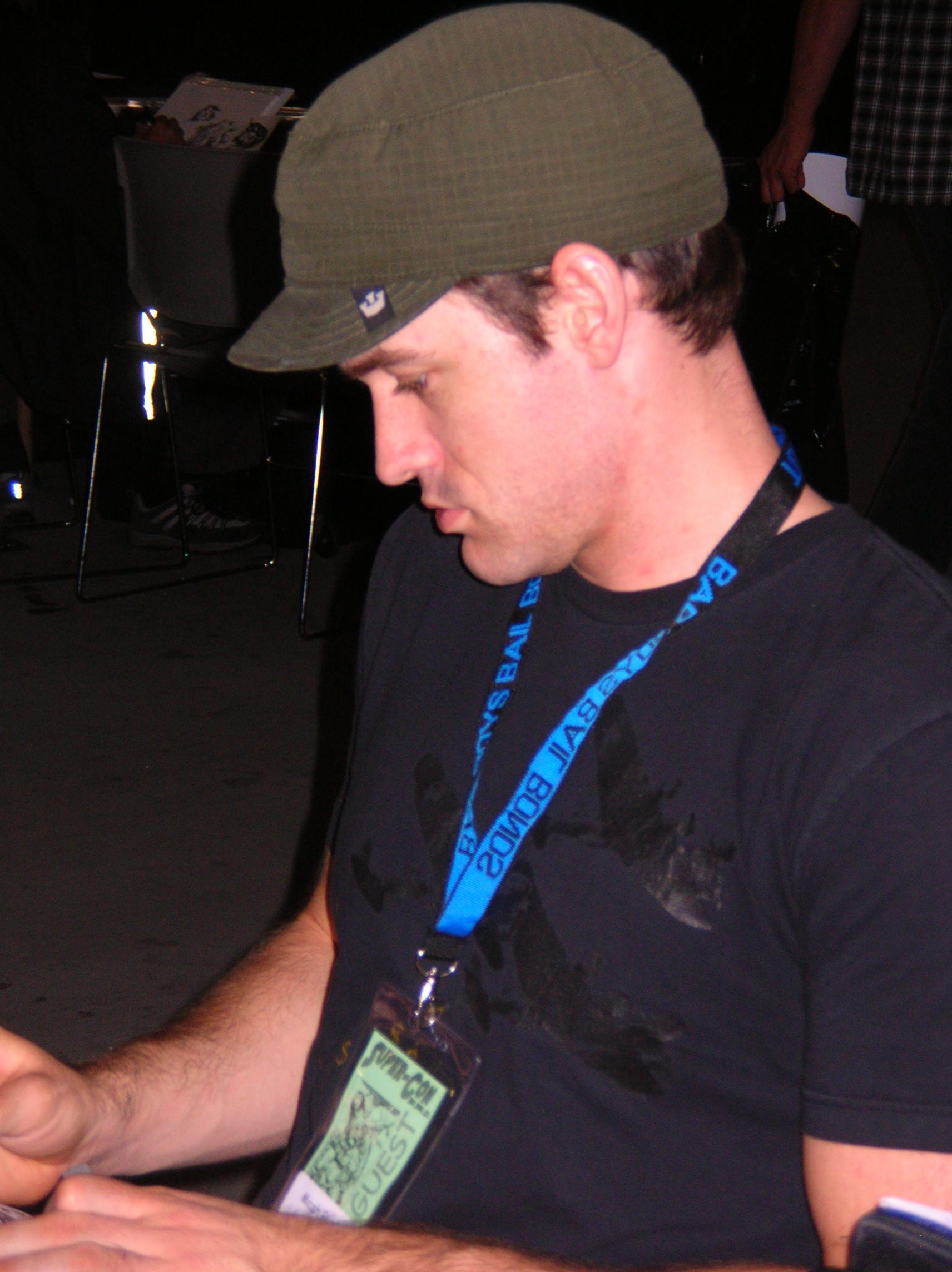 Micah Gunnell at Super-Con 2009 in San Jose, California.